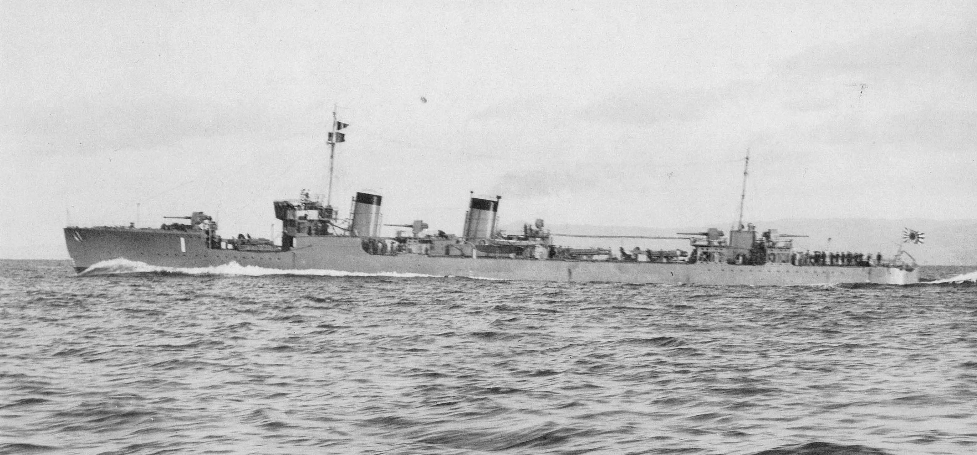 Imperial Japanese Navy destroyer Kamikaze, the second Japanese warship to bear that name.